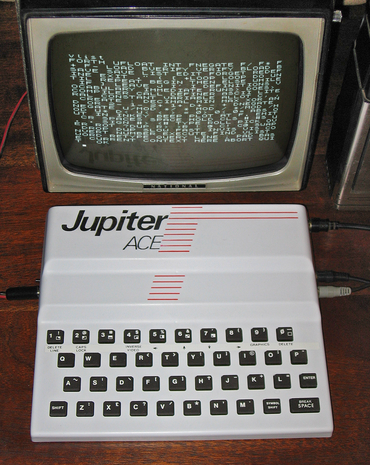 Better picture of a Jupiter ACE cleaned and with its original looks. I (User:Factor-h) didn't design the Jupiter Ace cover, everyone can look at it.